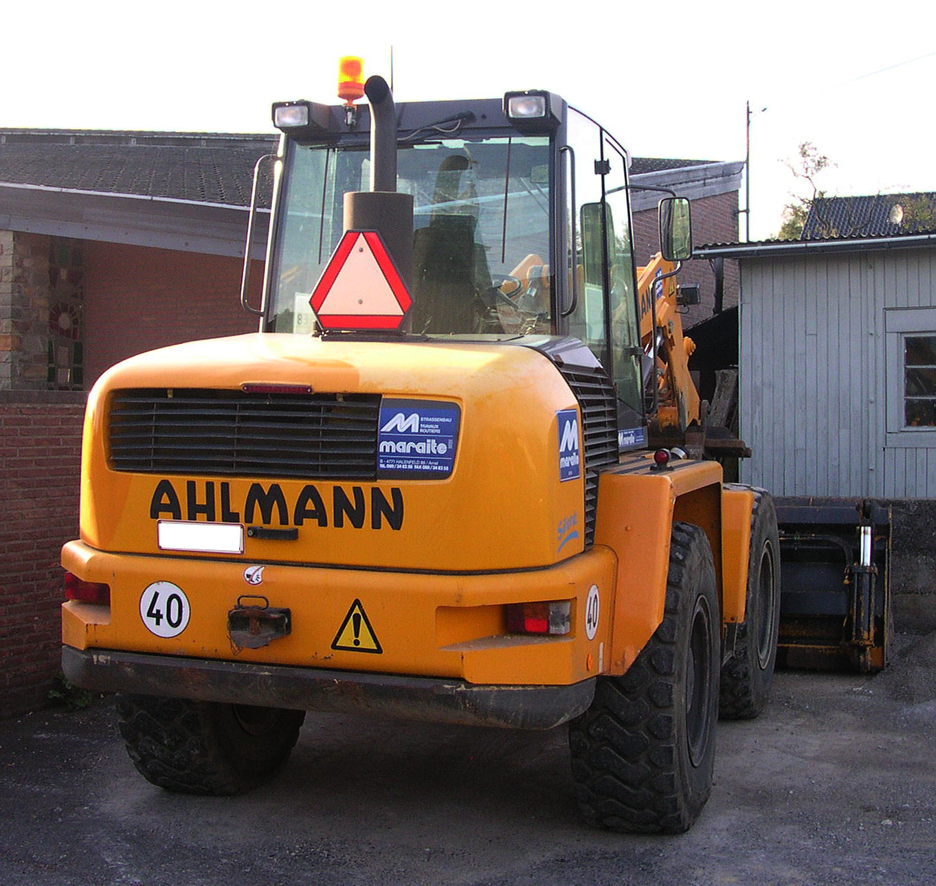 Ahlmann AS 150 Loader